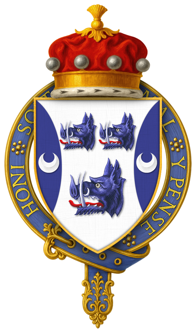 Garter-encircled arms of Quintin Hogg, Baron Hailsham of St Marylebone, KG, as displayed on his Order of the Garter stall plate in St. George's Chapel, Windsor Castle.